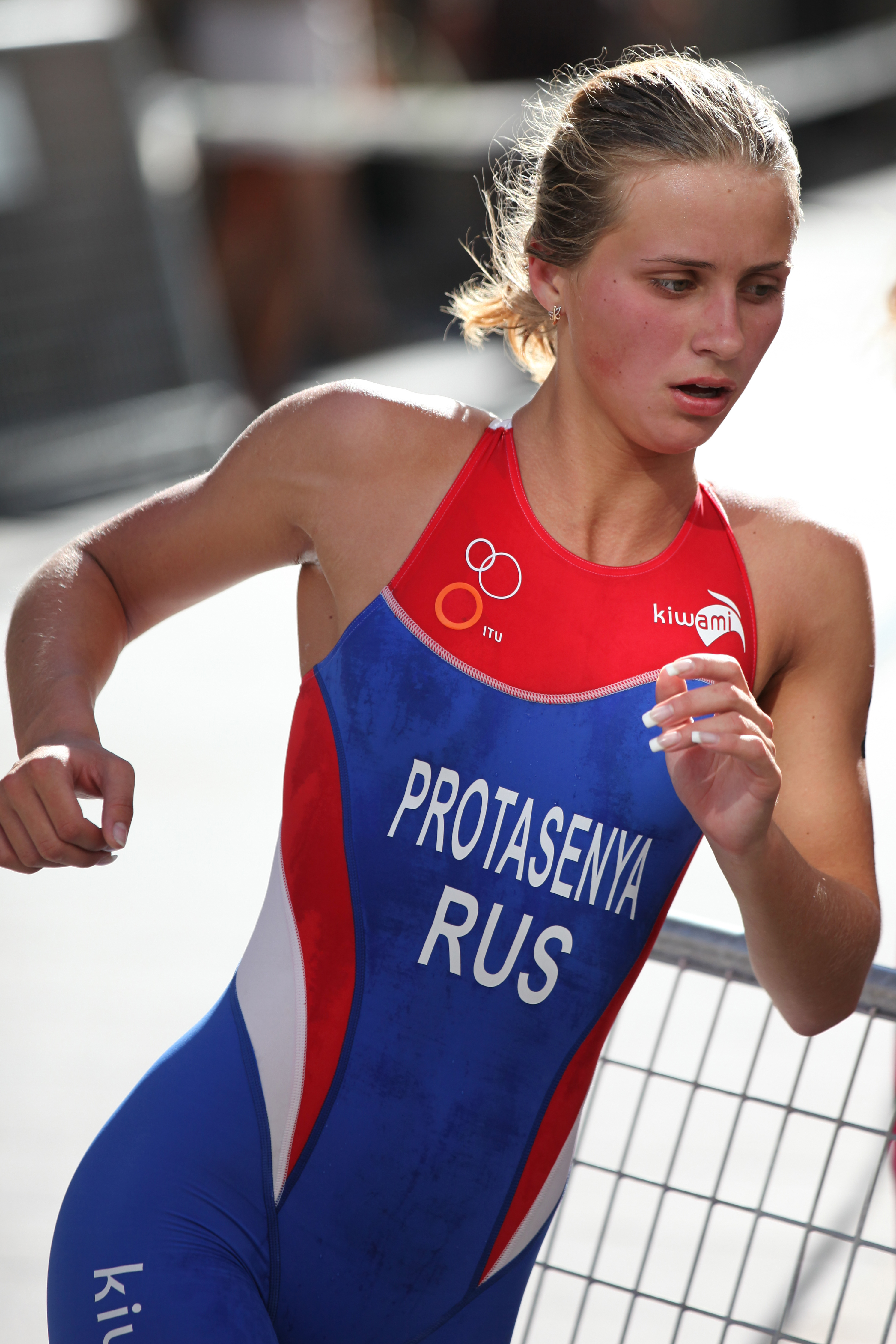 Anastasiya Protasenya (Анастасия Александровна Протасеня) at the Triathlon European Championships in Pontevedra.